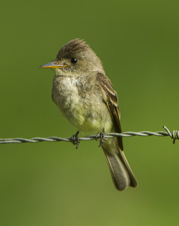 Tropical Pewee - Rio Tigre - Costa Rica